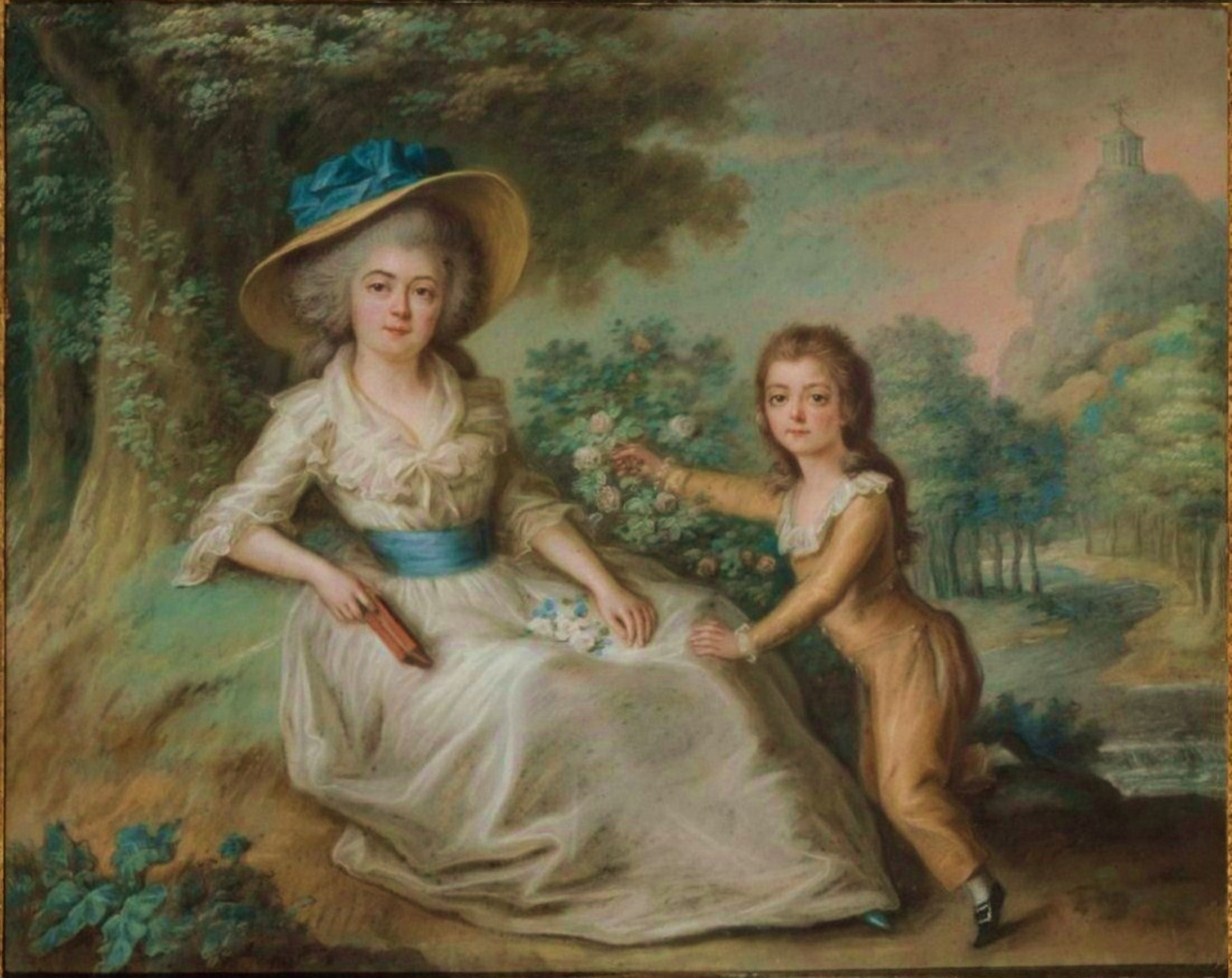 Portrait of Marie-Aurore de Saxe. Marie Aurorean Saxony with her son Maurice Dupin de Francueil by a member of the French School (circa 1785).